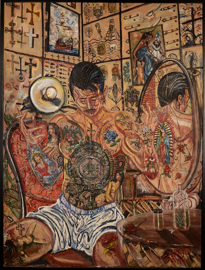 Ealy Mays's tribute to the Aztec culture's decimation by the Conquistadores